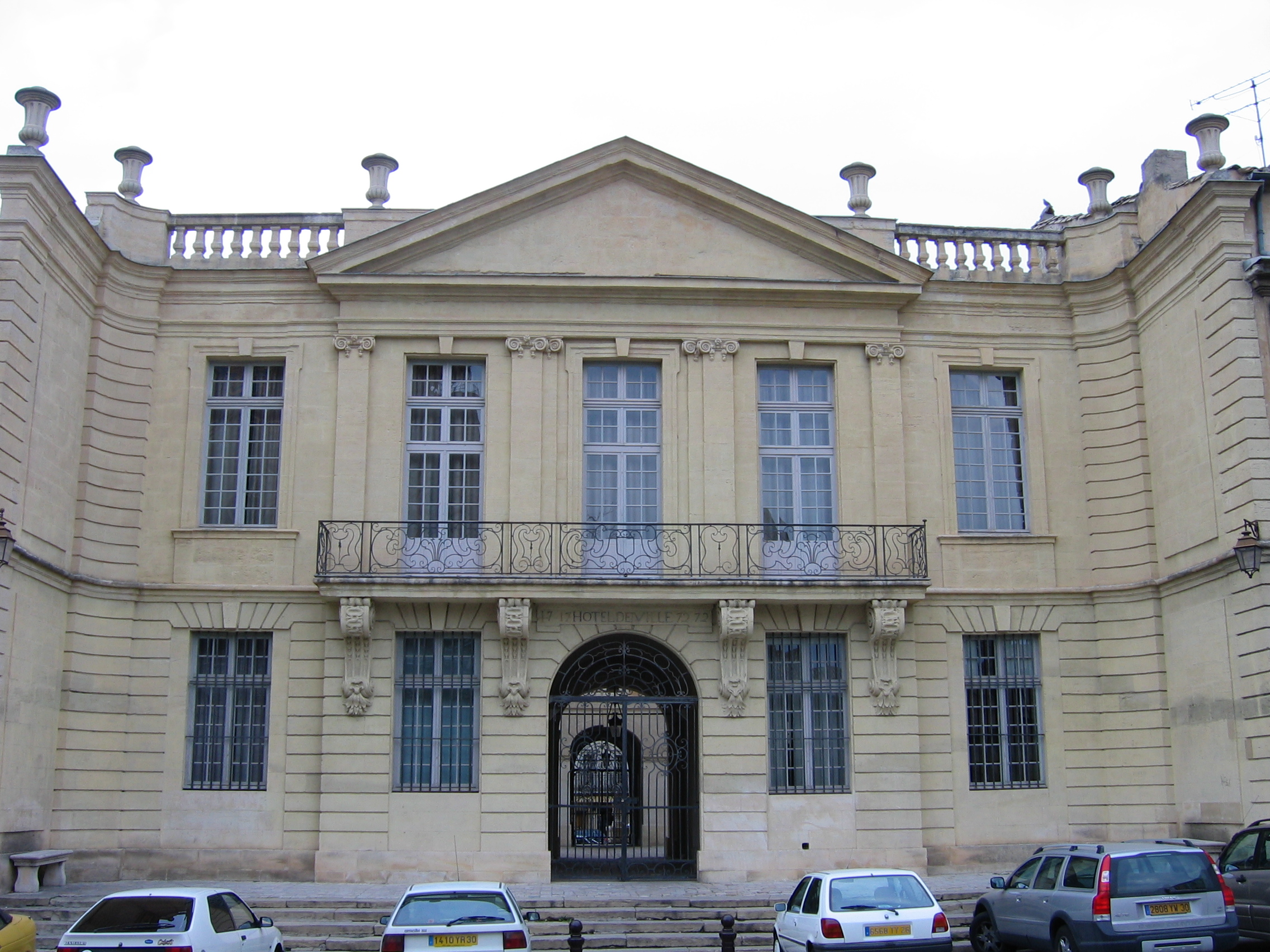 Town hall of Uzès (France). Photo prise par / Photo taken by: Poppy in January 2006.